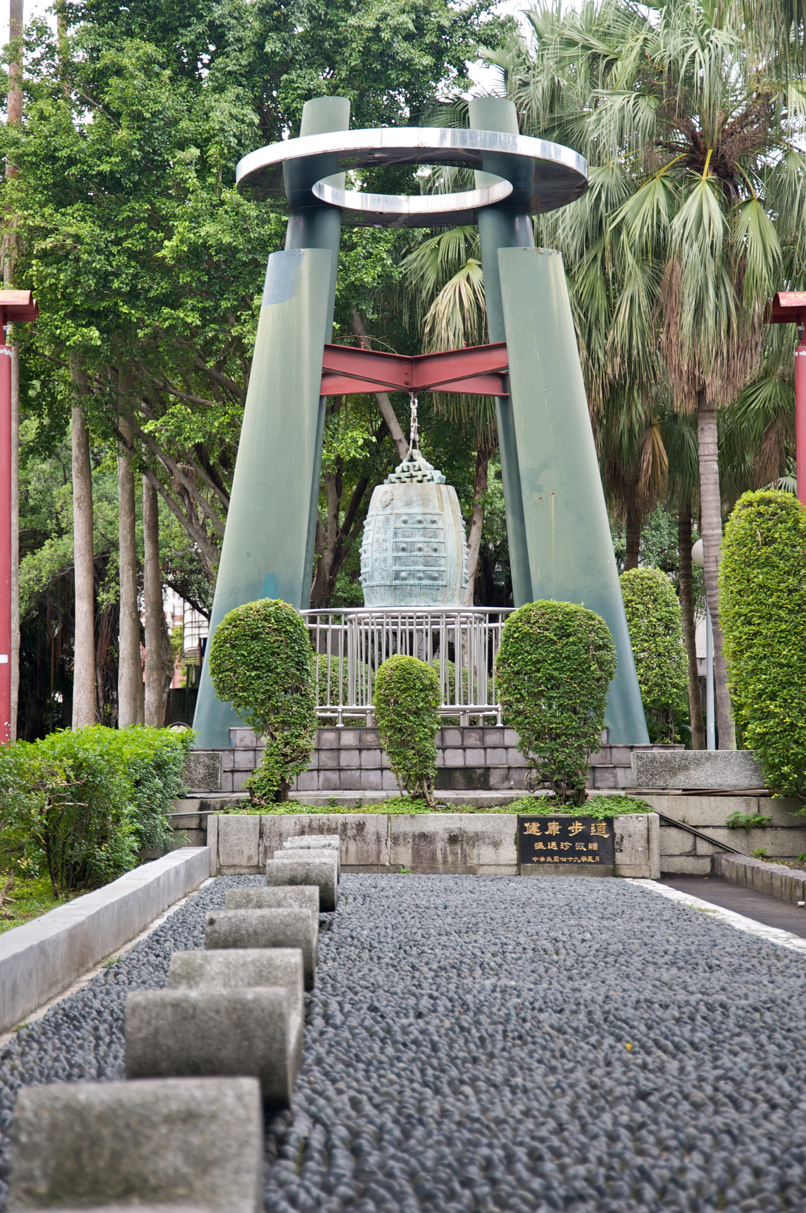 228 Peace Memorial Park in Taipei, Taiwan.